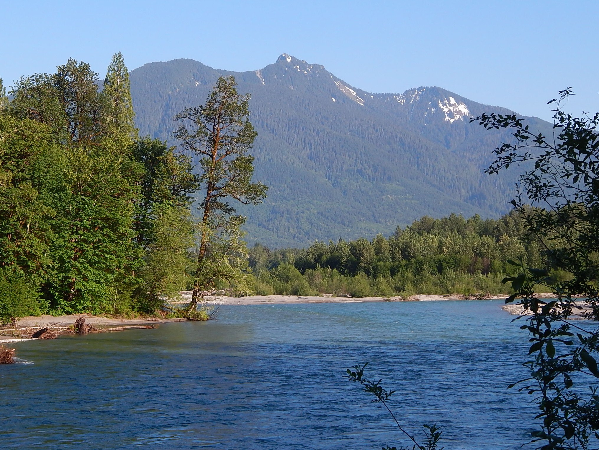 Prairie Mountain, near Darrington, WA along Highway 530 at Sauk River